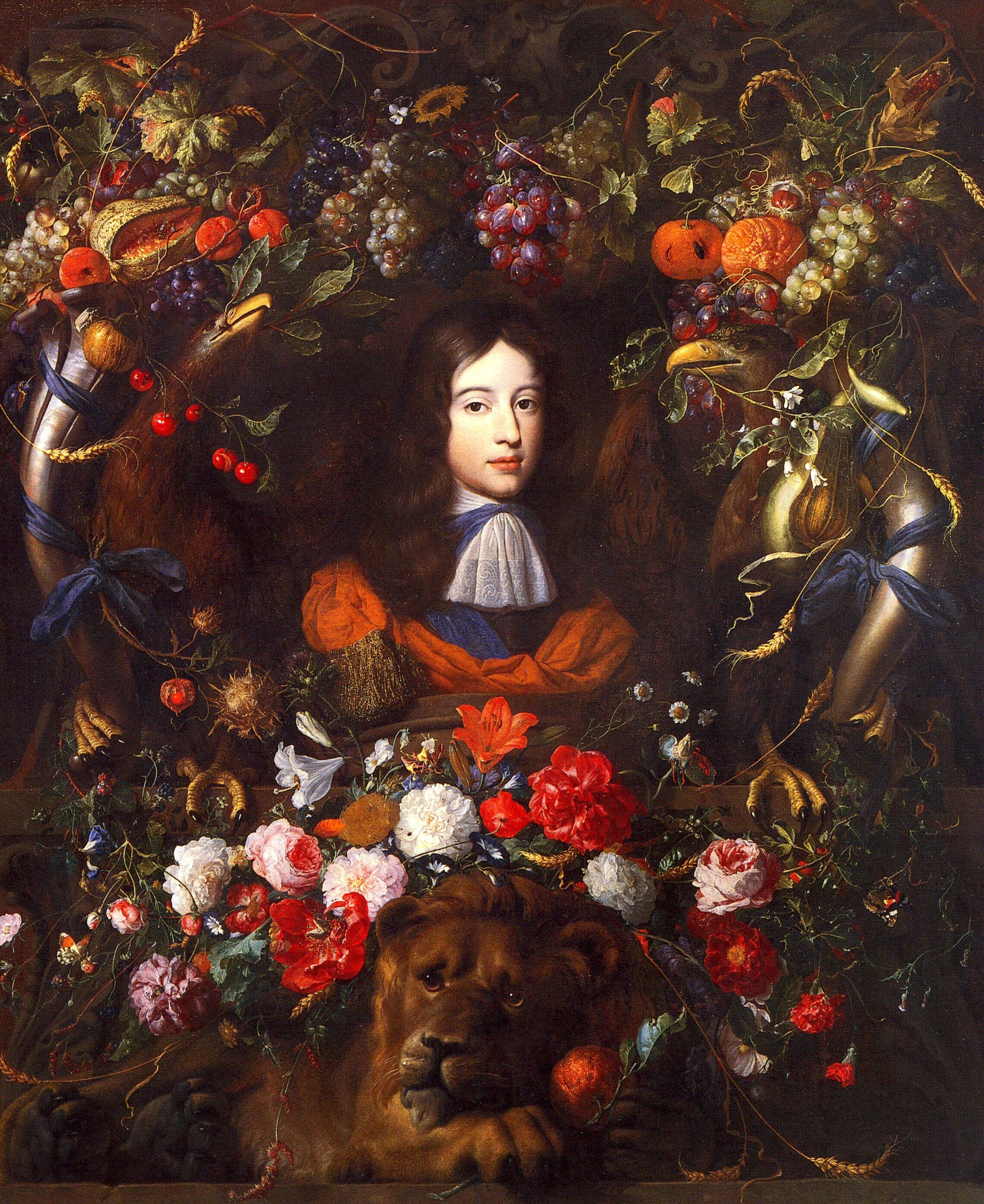 Flower garland with portrait of William III of Orange, aged 10label QS:Len,"Flower garland with portrait of William III of Orange, aged 10" label QS:Lfr,"Guirlande de fleurs et de fruits avec le portrait de Guillaume III d'Orange"